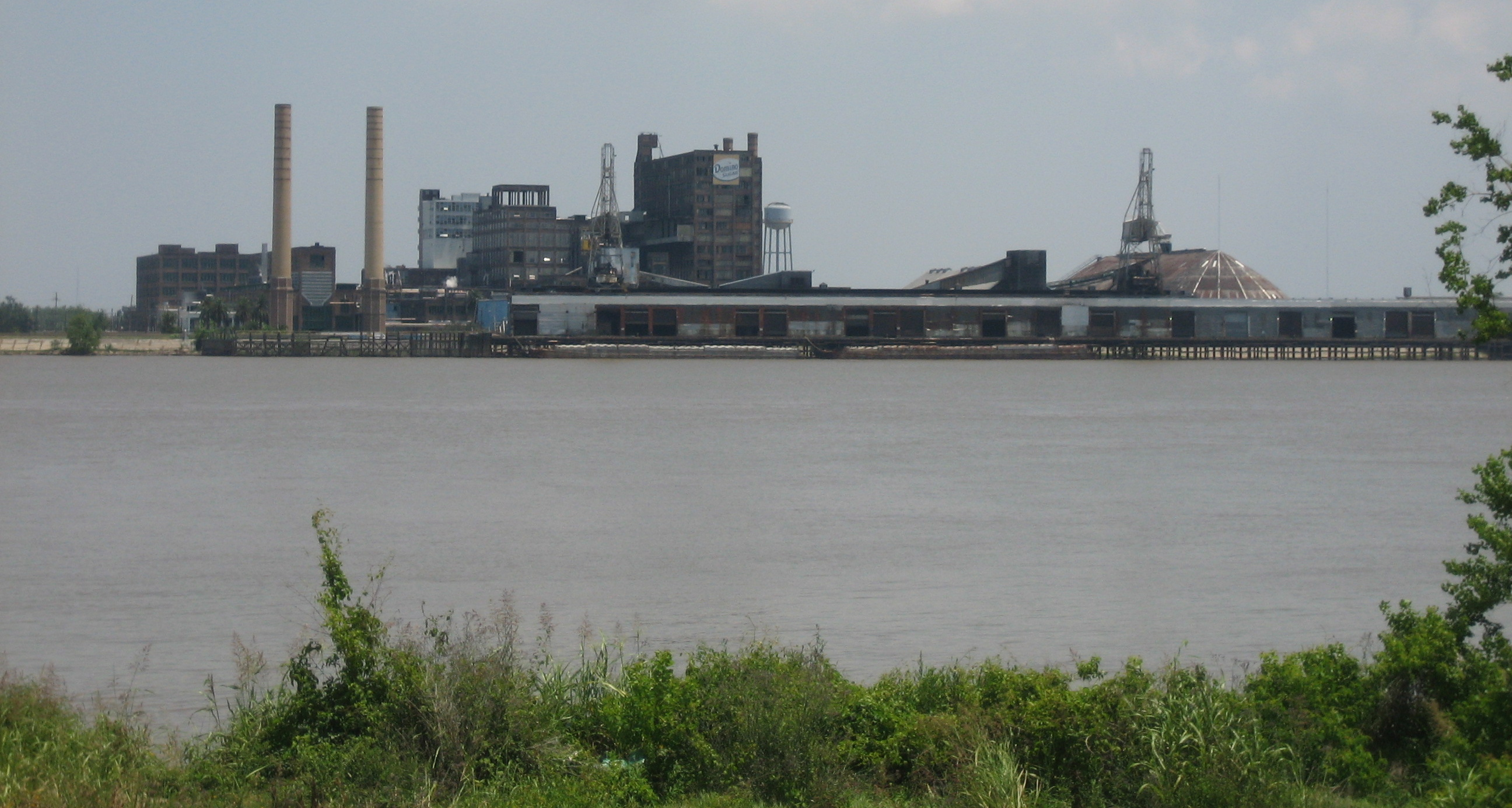 View across the Mississippi River from Algiers, Louisiana to Arabi with Domino Sugar Factory shown. Photo by Infrogmation, May 2006